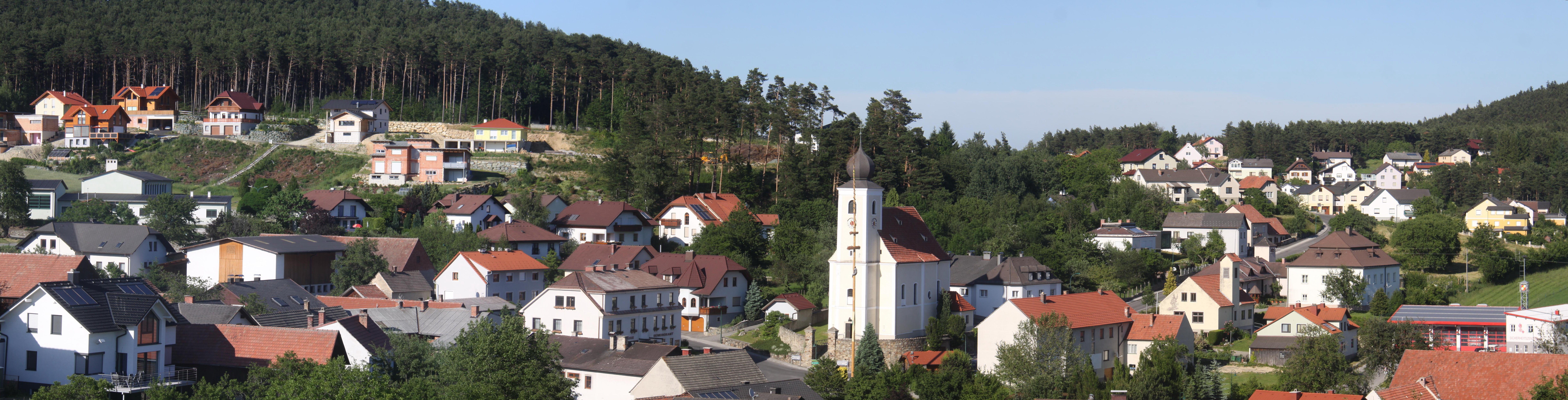 Municipality Hollenthon in Lower Austria. – The photo shows the panoramic view of the main village of Hollenthon.